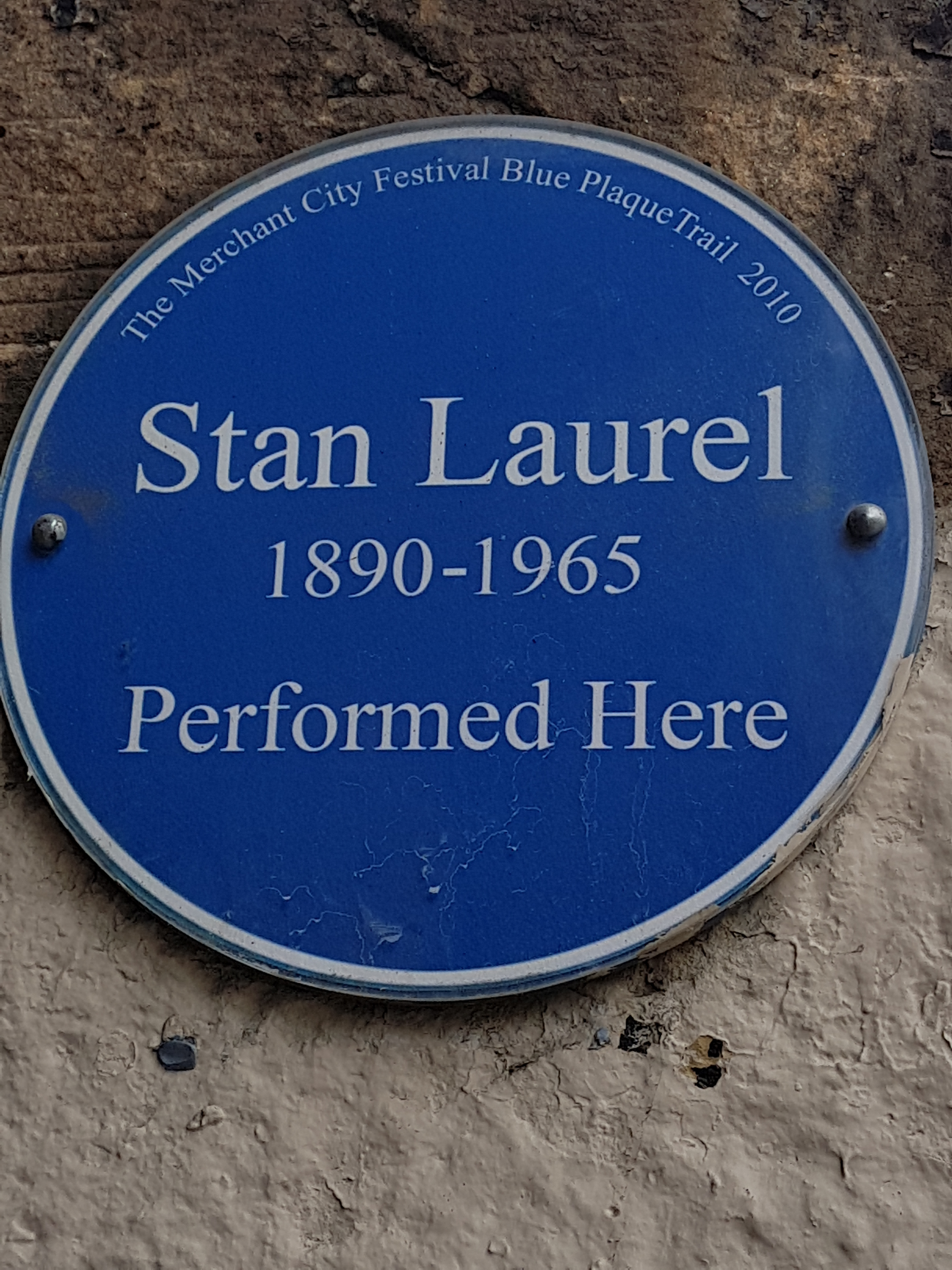 Britannia Music Hall Wikidata has entry Q11838924 with data related to this item.